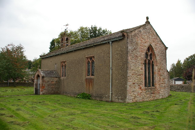 St Luke's parish church, Soulby, Cumbria, seen from the southeast